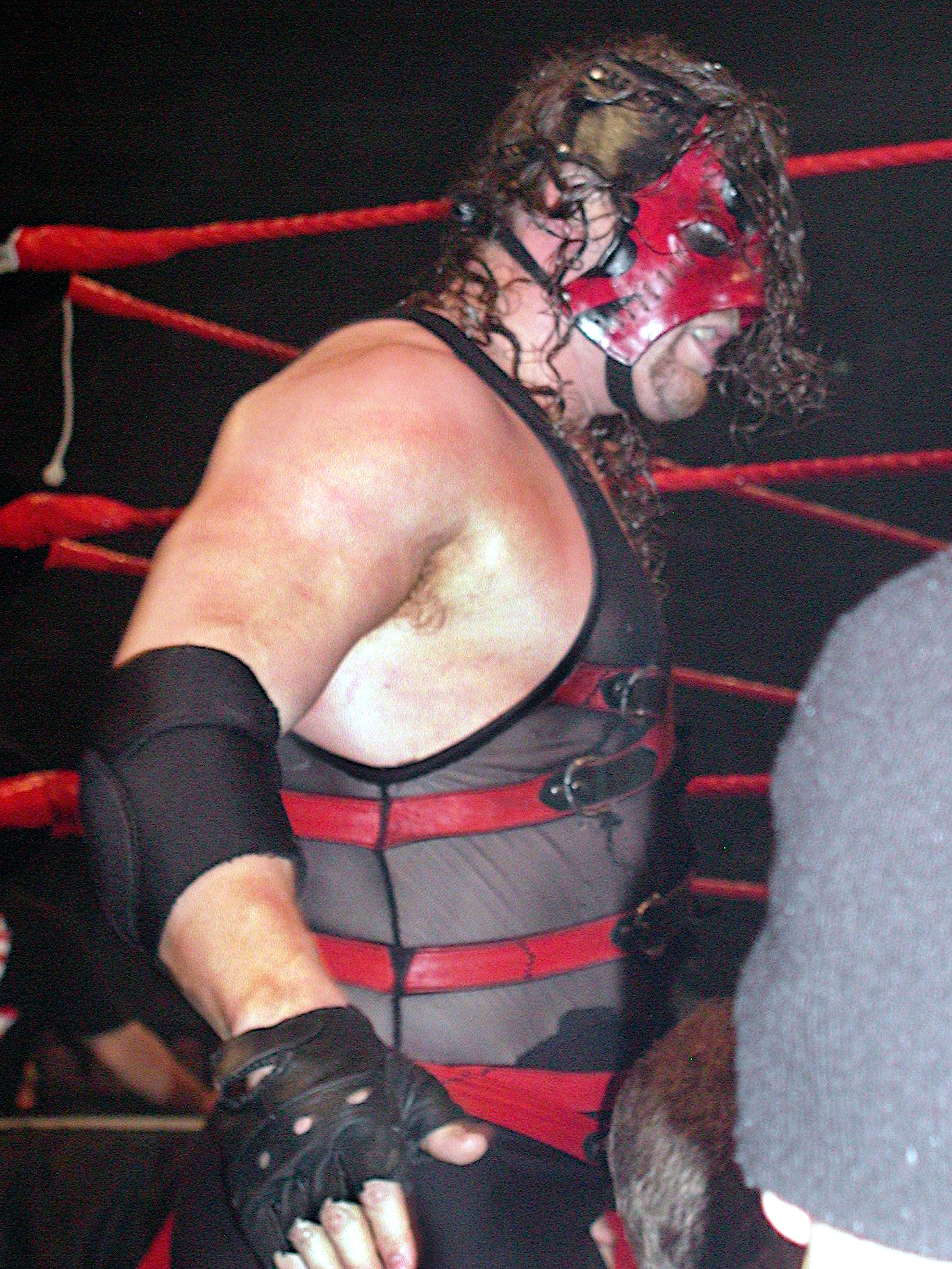 Kane at WWE Raw. Key Arena, Seattle, WA, March 31en:2003 Taken by me.